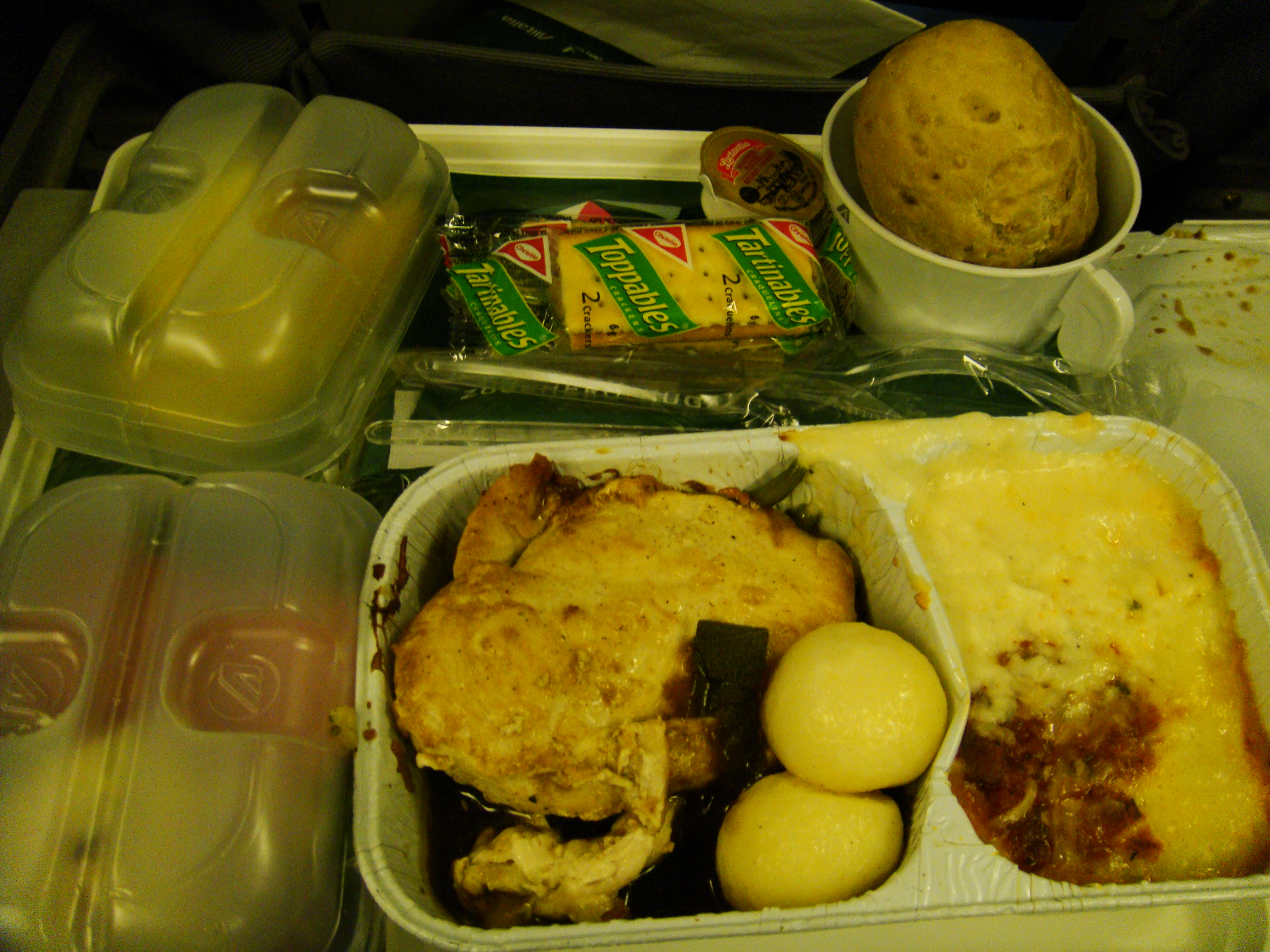 Alitalia economy class meal, Toronto to Rome flight.